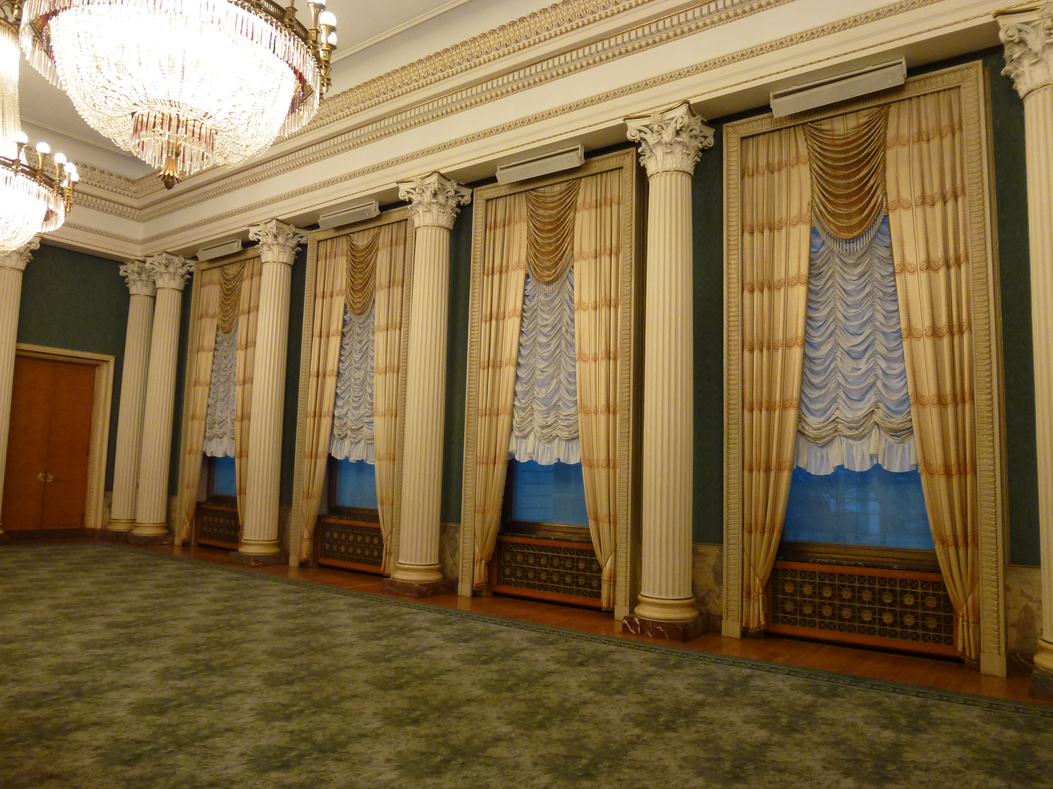 Russian Embassy in Berlin, Mirror Hall